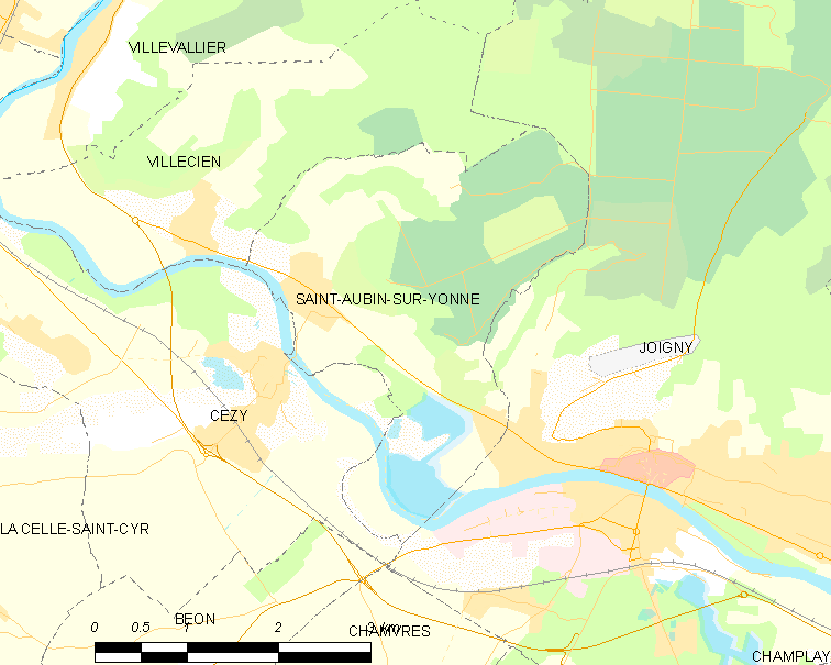 Map of French municipality Saint-Aubin-sur-Yonne